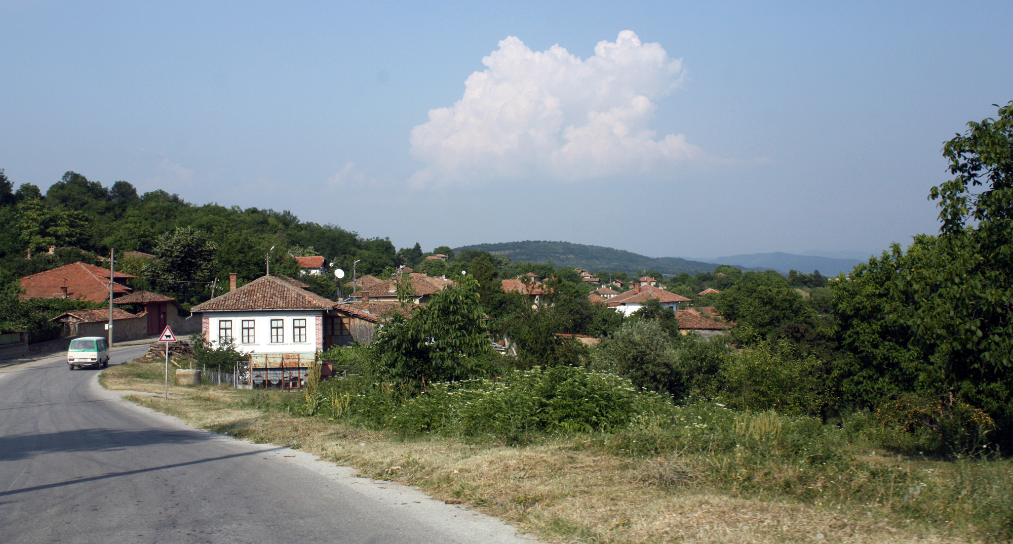 View at entrance to Pchelishte village, Bulgaria